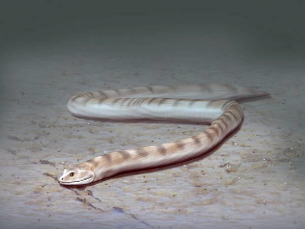 Life reconstruction of Adelospondylus watsoni